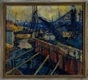 Thomas P. Barnett painting, from 1927, titled "Construction of the River des Peres Channel in Forest Park". Is in the collection of the Missouri History Museum.